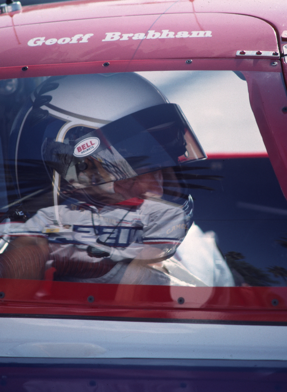 IMSA Del Mar Grand Prix - October 1990